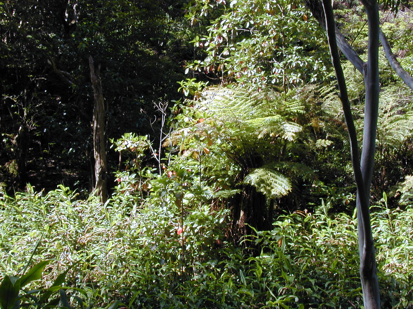 Cinchona pubescens (Family: Rubiaceae), photographed at Makawao forest reserve, Maui, Hawaii